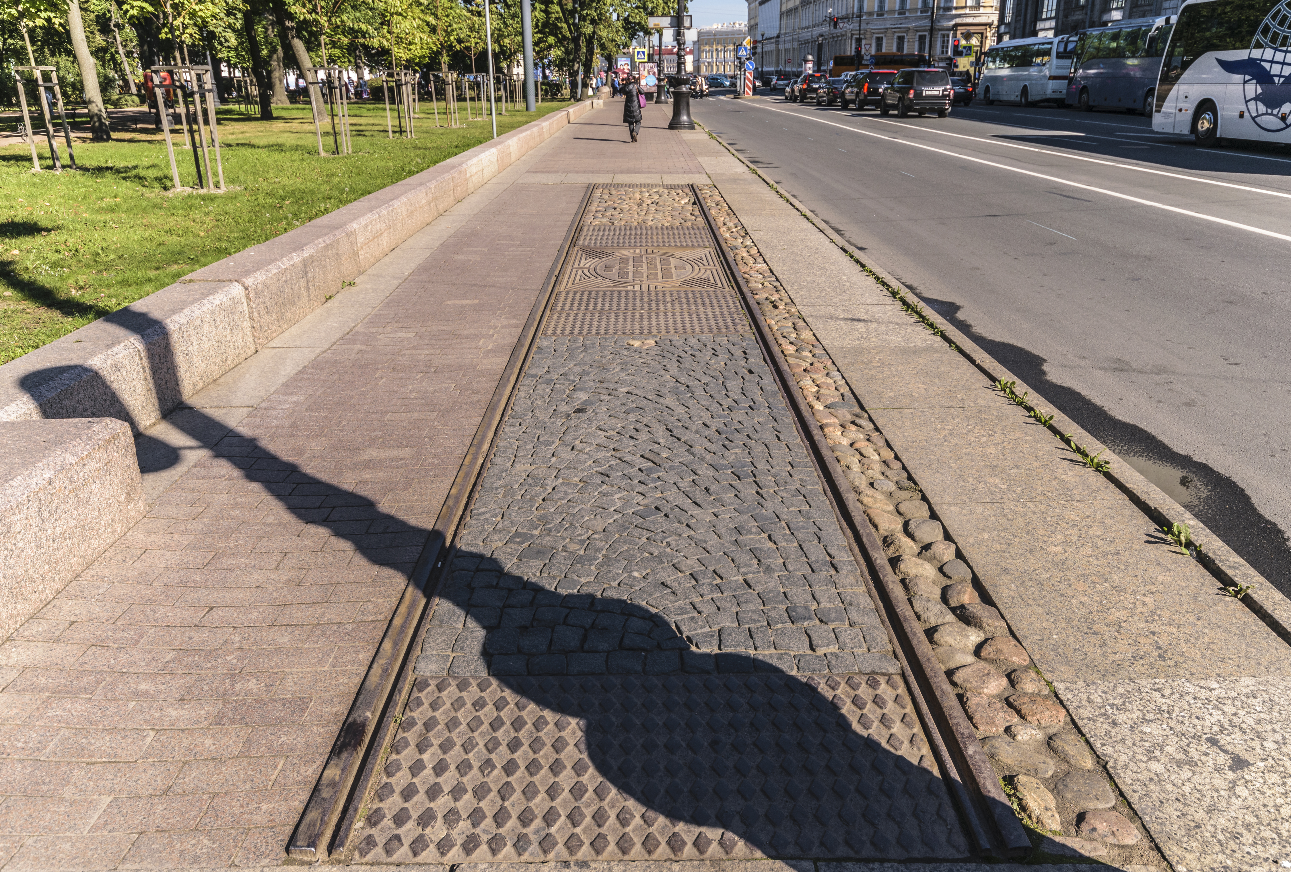 First Tram Route Memorial on Admiralteisky Avenue in Saint Petersburg